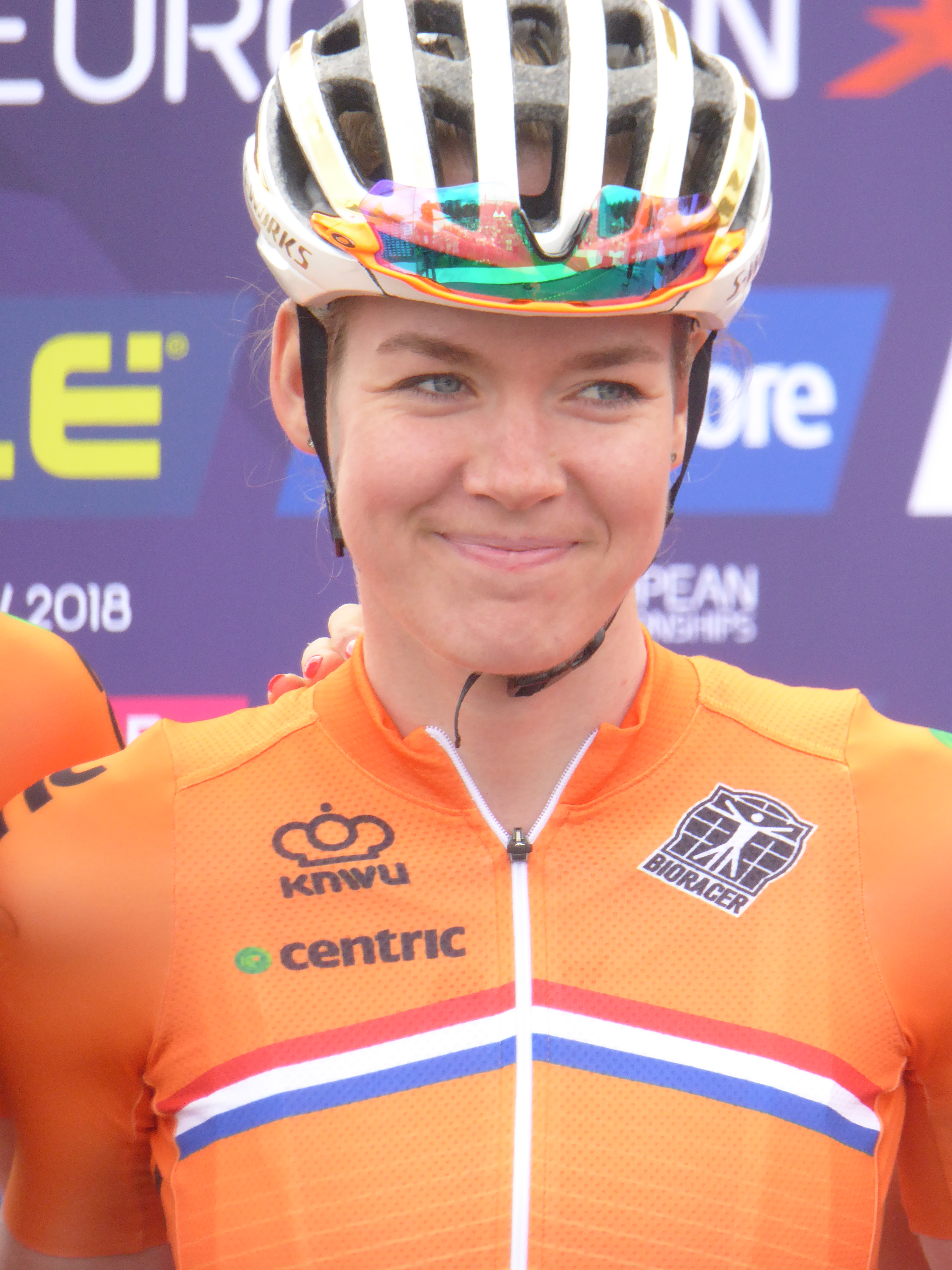 Anna van der Breggen (Netherlands), prior to the women's road race at the 2018 UEC European Road Cycling Championships in Glasgow.